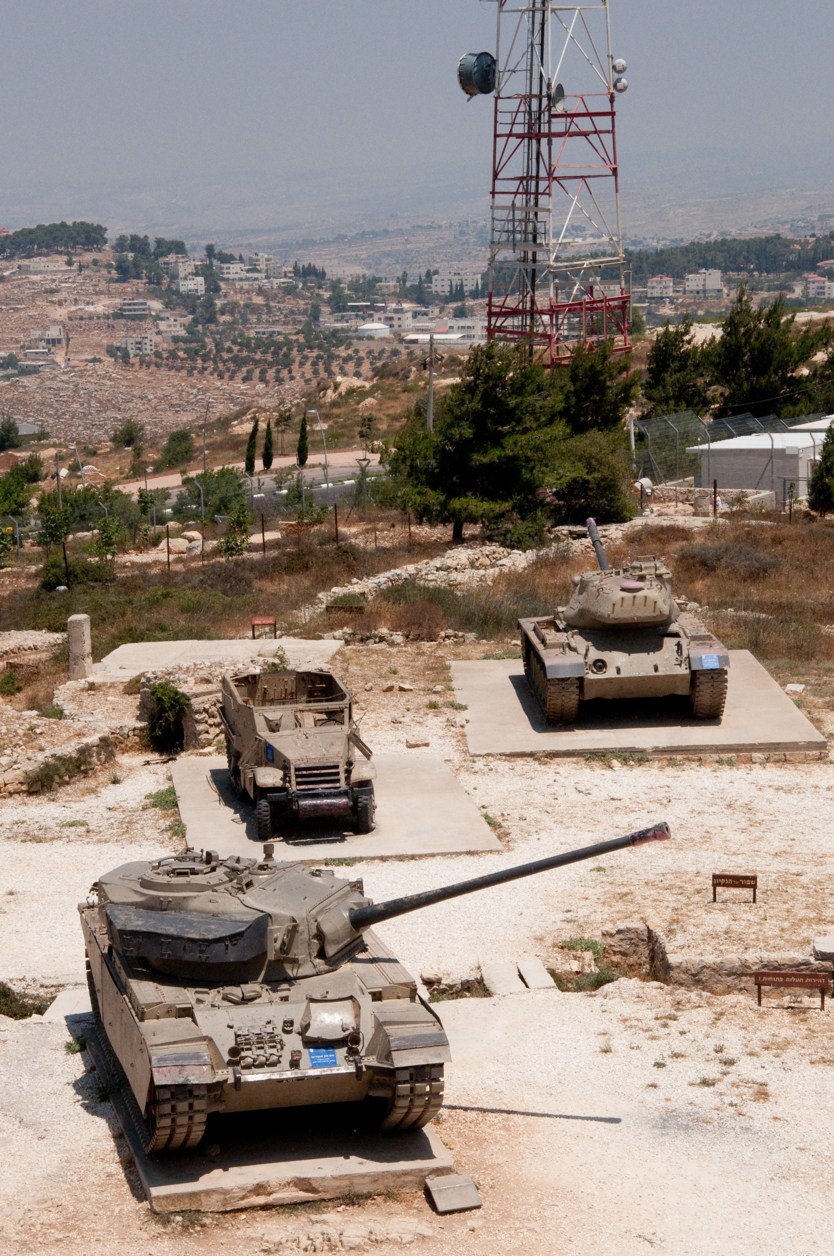 From top to bottom: M47 Patton II, M3 halftrack and Centurion Mk. 5 (Sho't) or its modernisation